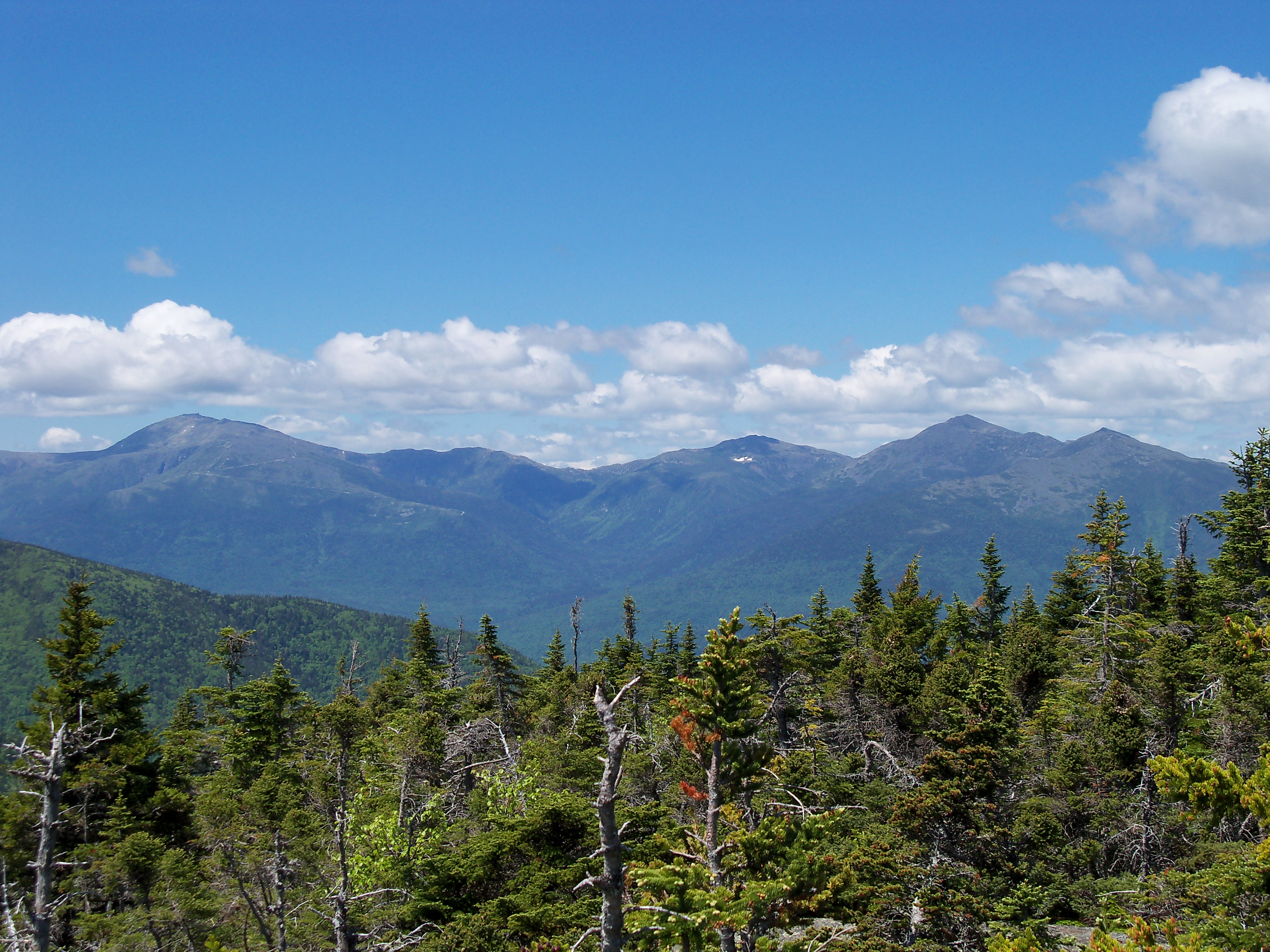 View of the Presidential Range from the summit of Mount Moriah, New Hampshire, USA. The peaks, from left to right, are Mt. Washington, Mt. Clay, Mt. Jefferson, Mt. Adams and Mt. Madison.